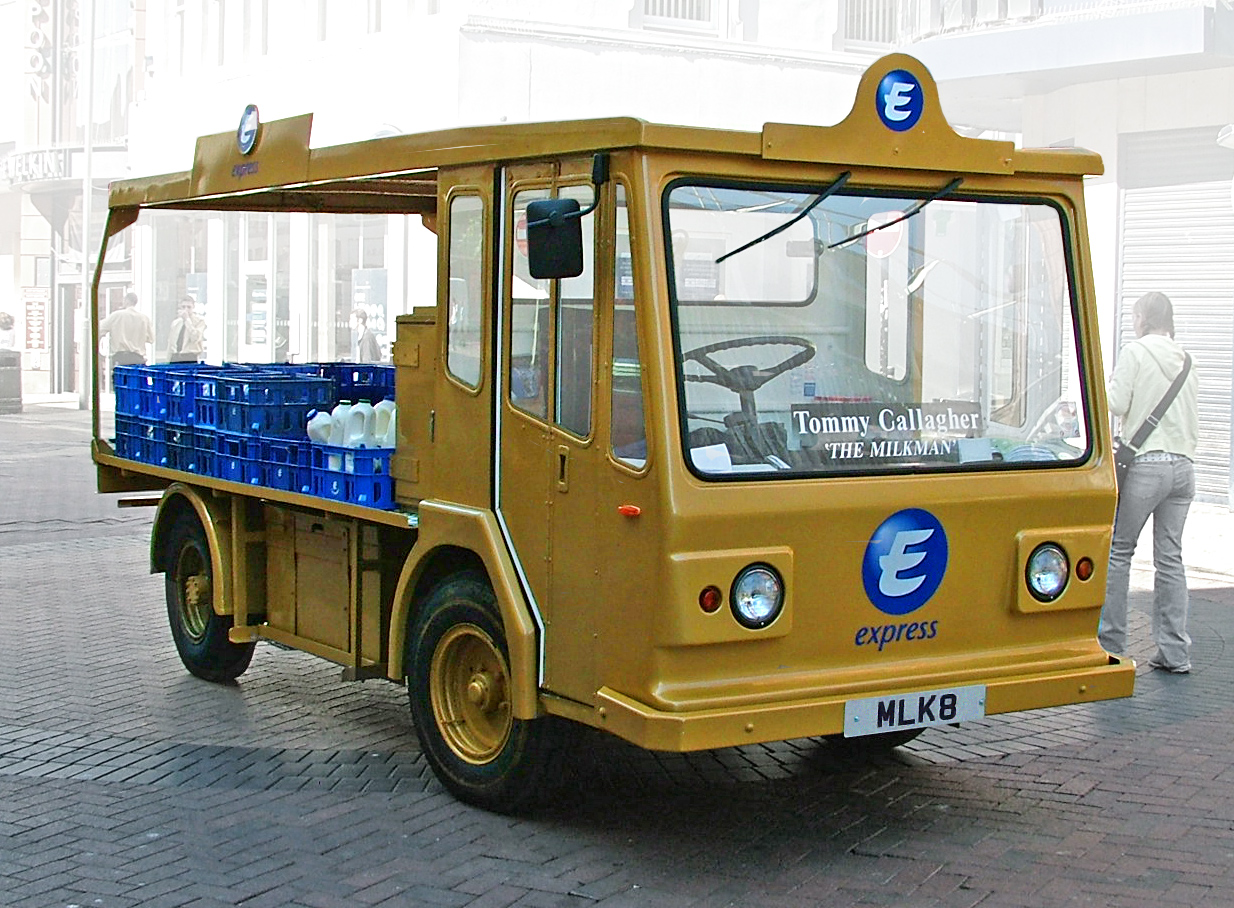 Milk float Whitechapel, Liverpool - Liverpool